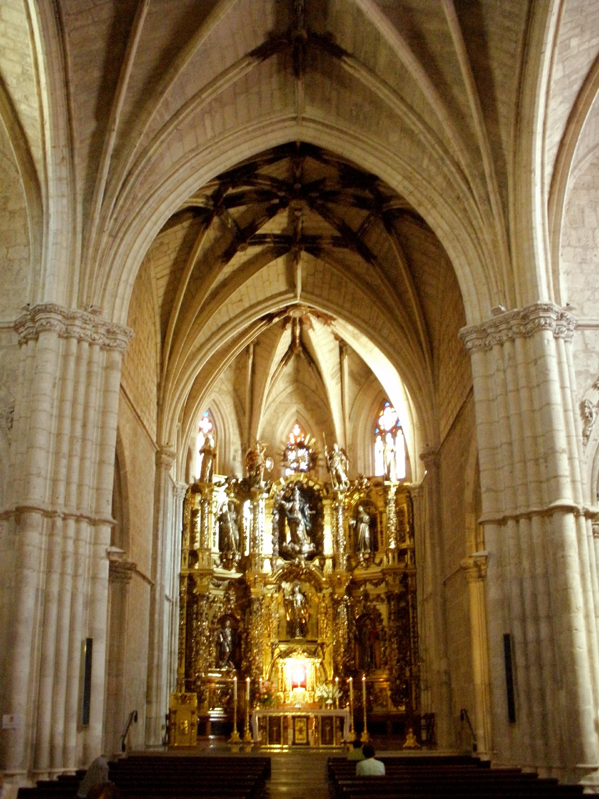 Iglesia del Monasterio de Santa Clara de Palencia (Castilla y León, España)